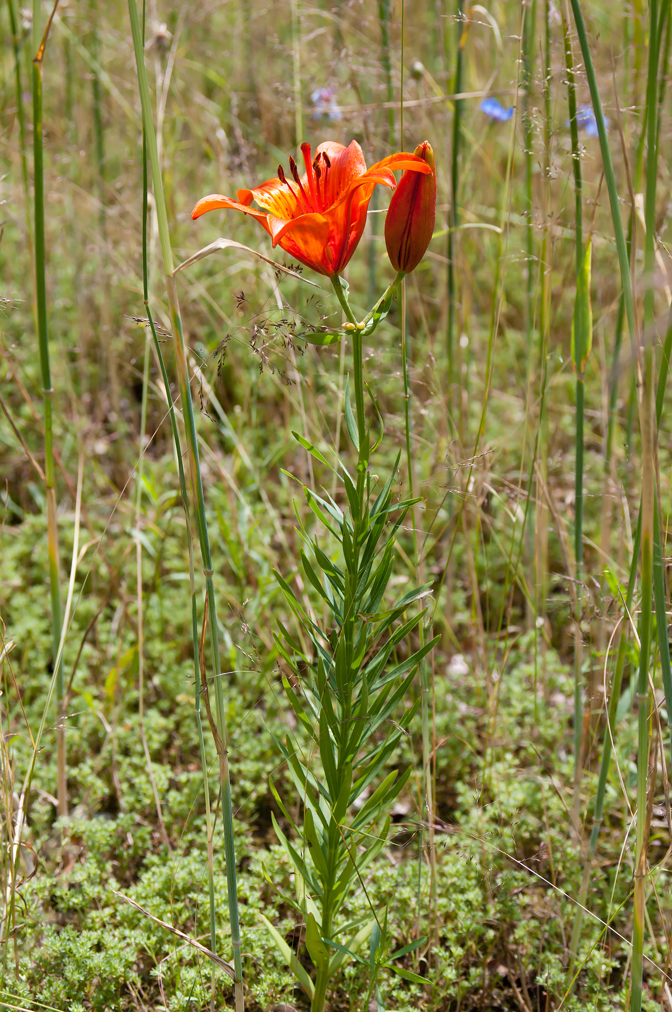 Flowering Lilium bulbiferum ssp. croceum in a rye field on sandy, nutrient-poor soil. On the ground, you can see Scleranthus annus.